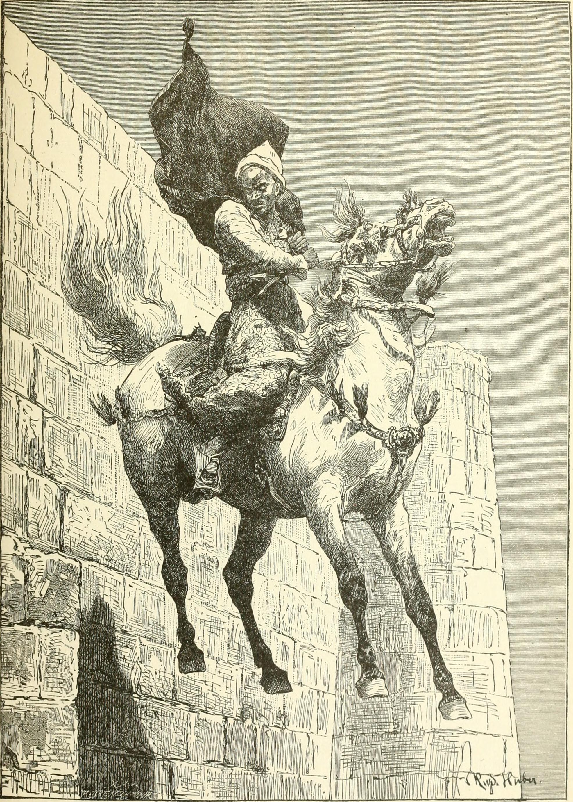 Title: Zigzag journeys in the Levant, with a Talmudist story-teller : a spring trip of the Zigzag club through Egypt and the Holy Land Year: 1885 (1880s) Authors: Butterworth, Hezekiah, 1839-1905 Subjects: Middle East -- Description and travel Publisher: Boston : Estes and Lauriant Text Appearing Before Image: ave. Let me preparefor the future, for the days that shall dawn beyond the three hundred briefdays of this one year. There are, I perceive, some wise men among you. Letthem be my councillors. I look upon the year of my reign as an opportunity.Let me improve it; a good reign will not end in a destiny of desolation. Itcannot do so. It would be contrary to the laws of the Ruler of the universe,whom I serve. Naked thou wert sent to us, and naked shalt thou go from us, exclaimedthe congregation of the nobles. But I will send workmen to the mysterious island to beautify it, and toprepare for my coming. Then the wise men shouted, — Long live the King ! I will change the land that looks so barren into fountains and gardens. Long live the King ! I will make it to bloom like Paradise. Long live the King ! I will give the sorrowful homes there. Long live the King ! And the poor. Long live the King ! I will cause it to be inhabited by people whom I have loved and madehappy. Long live the King ! Text Appearing After Image: THE MAMF.LUKK S LEAP. THE MYSTERIOUS ISLAND. 185 And when my day shall come to give up my throne here, and lay aside myroyal garments, I shall rejoice to go. I shall only be going to my own. Thou hast discovered the secret of life, said the wise men. O King,live forever! The slave did as he had purposed in his heart. The days passed, one by one, all the three hundred and sixty-five. The